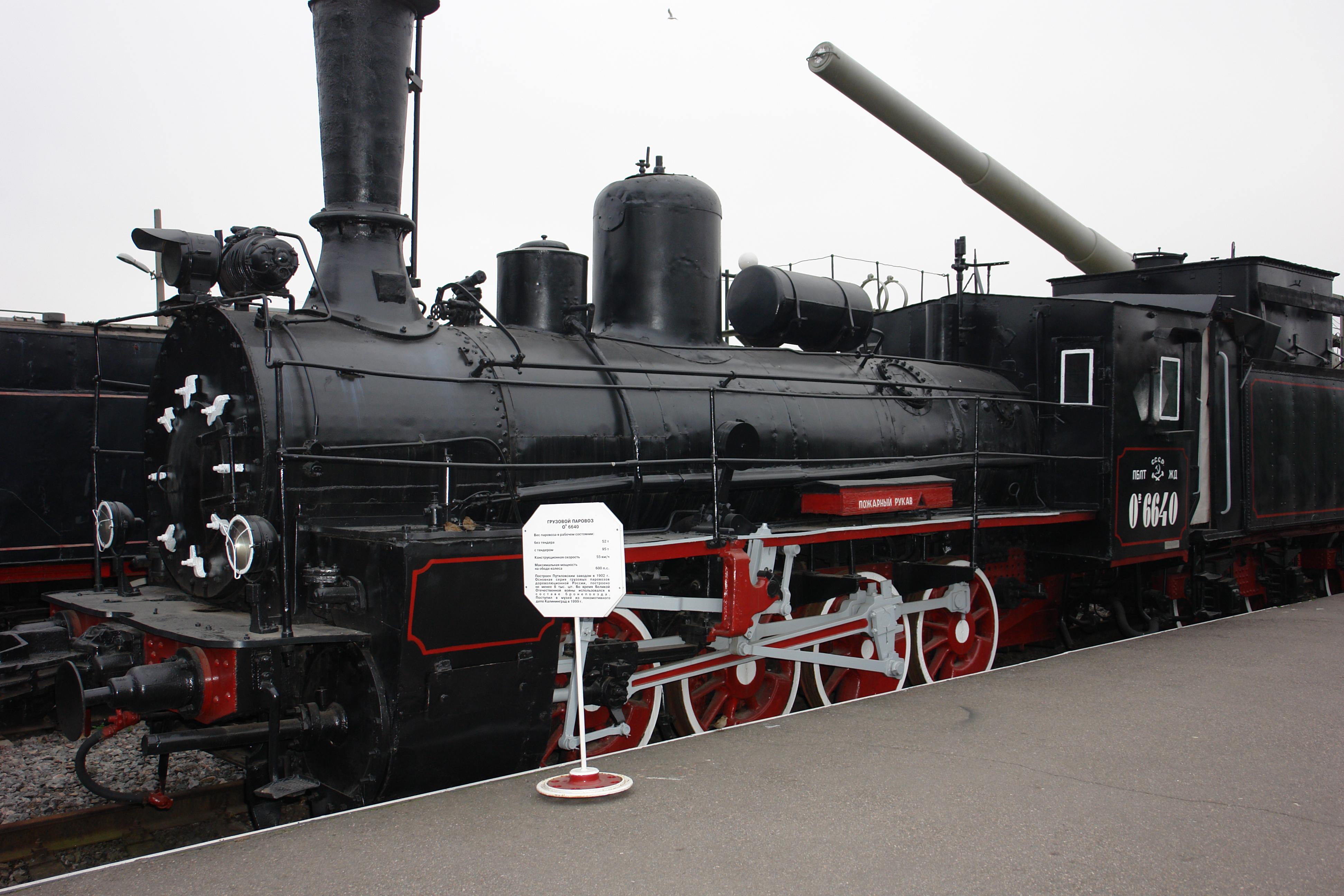 Freight steam locomotive Ov 6640 Weight in working order:excluding tender521 t.including tender951 t.Design speed55 kphMaximum power at wheel rim600 hp